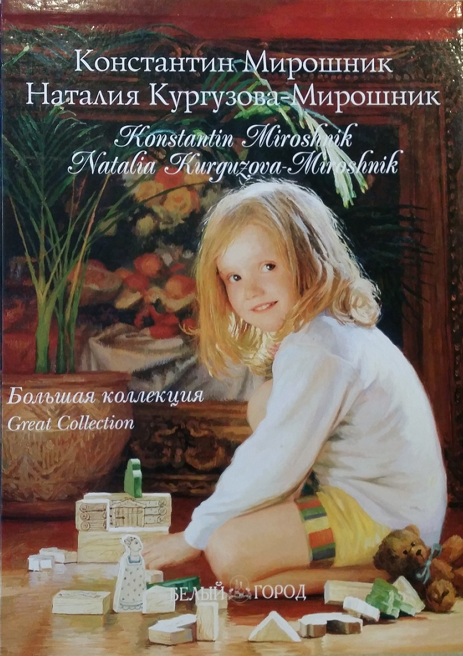 Constantine Miroshnik, Natalia Kurguzov-Miroshnik. Great Collection